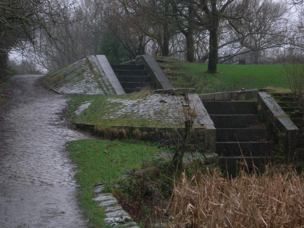 author: R Fletcher